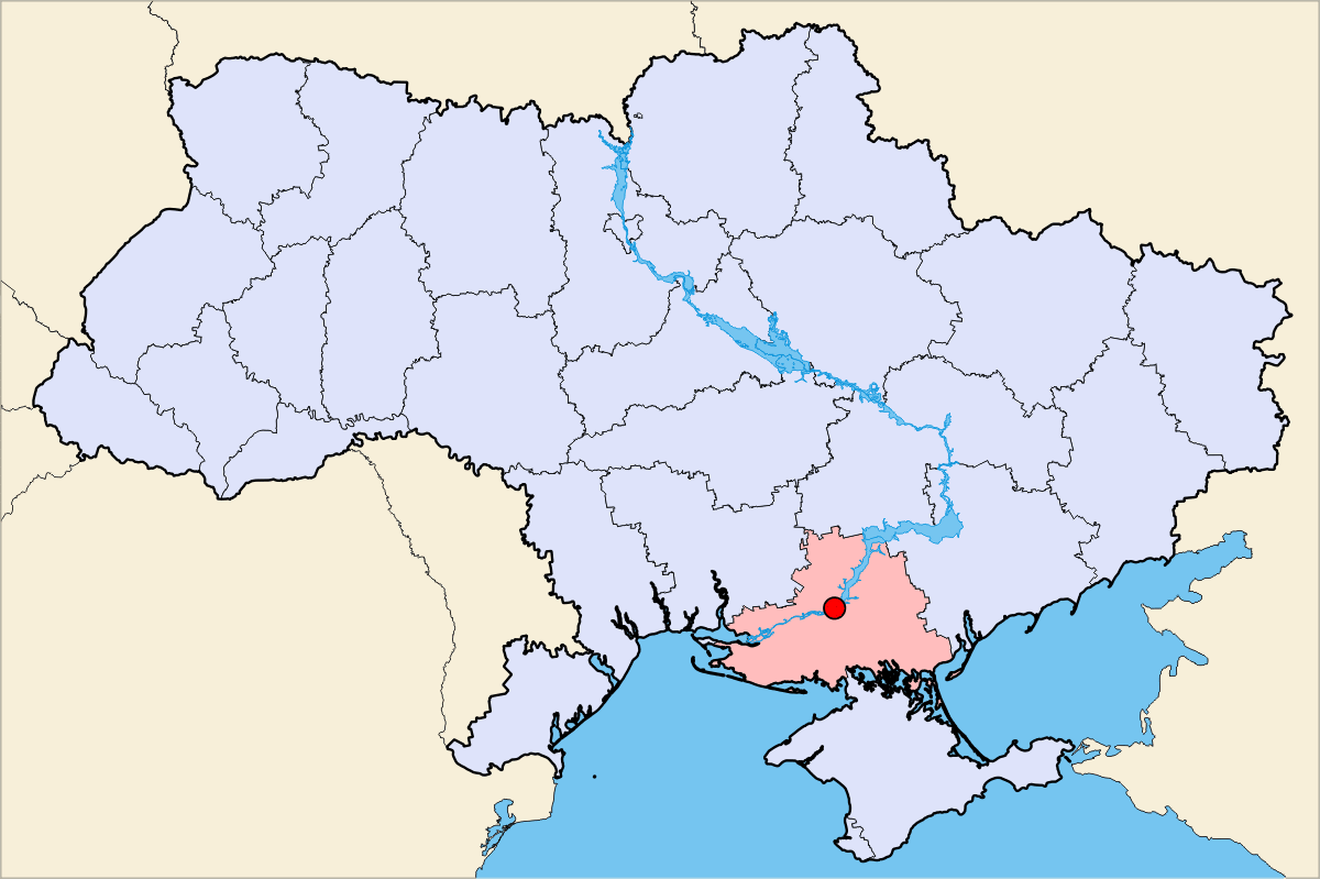 Description = Kakhovka geographical position Source = own work, Skluesener Date = 22.01.2006 Author = Skluesener Credits = Colours chosen according to a map of steschke